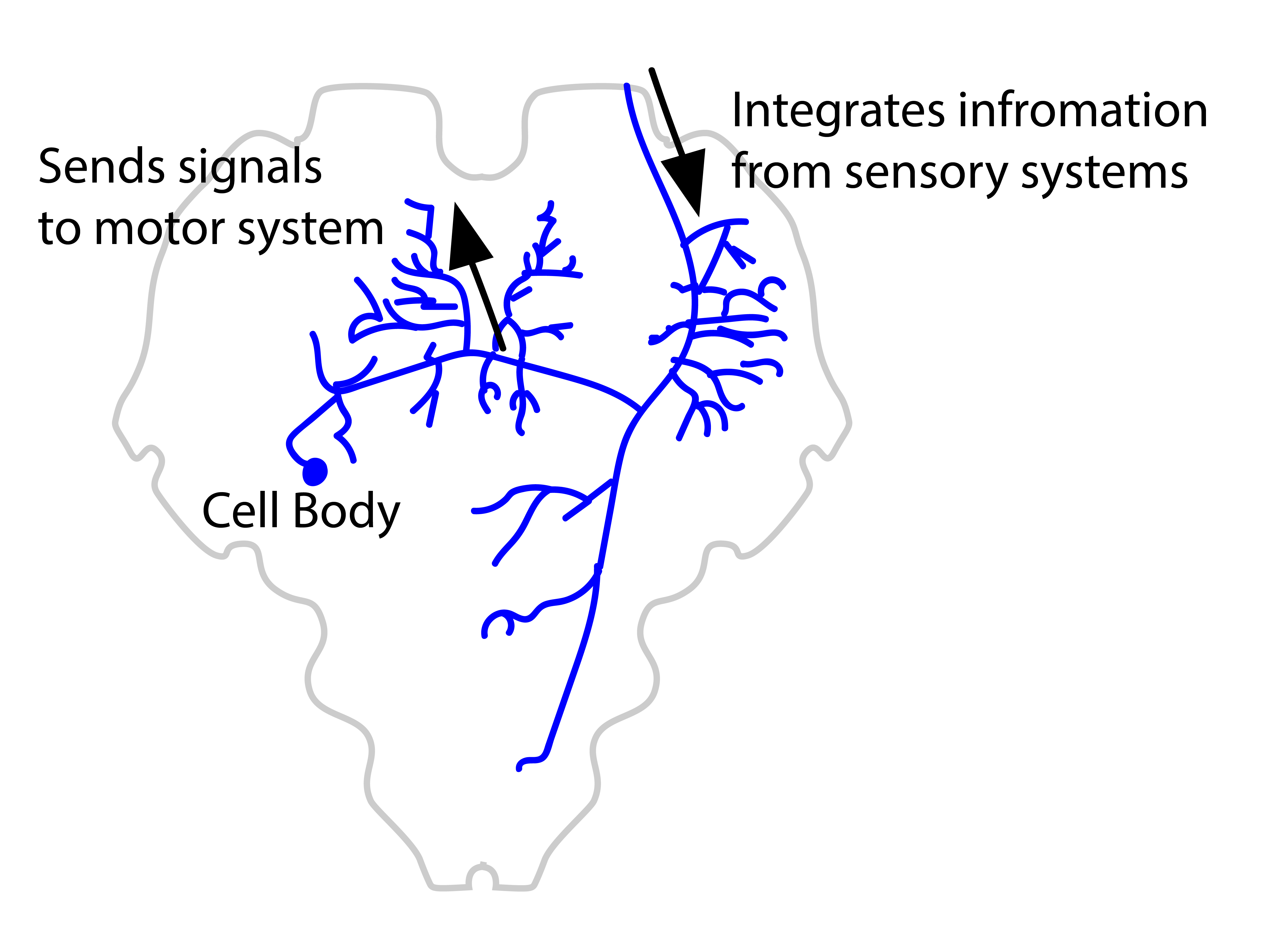 Cartoon of a locust interneuron that integrates information about wing strain in order to control wing motor neurons during flight, based on Pearson, K. G. and Wolf, H. Connections of hindwing tegulae with flight neurones in the locust, Locusta migratoria. J. Exp. Biol. 135: 381-409, 1988